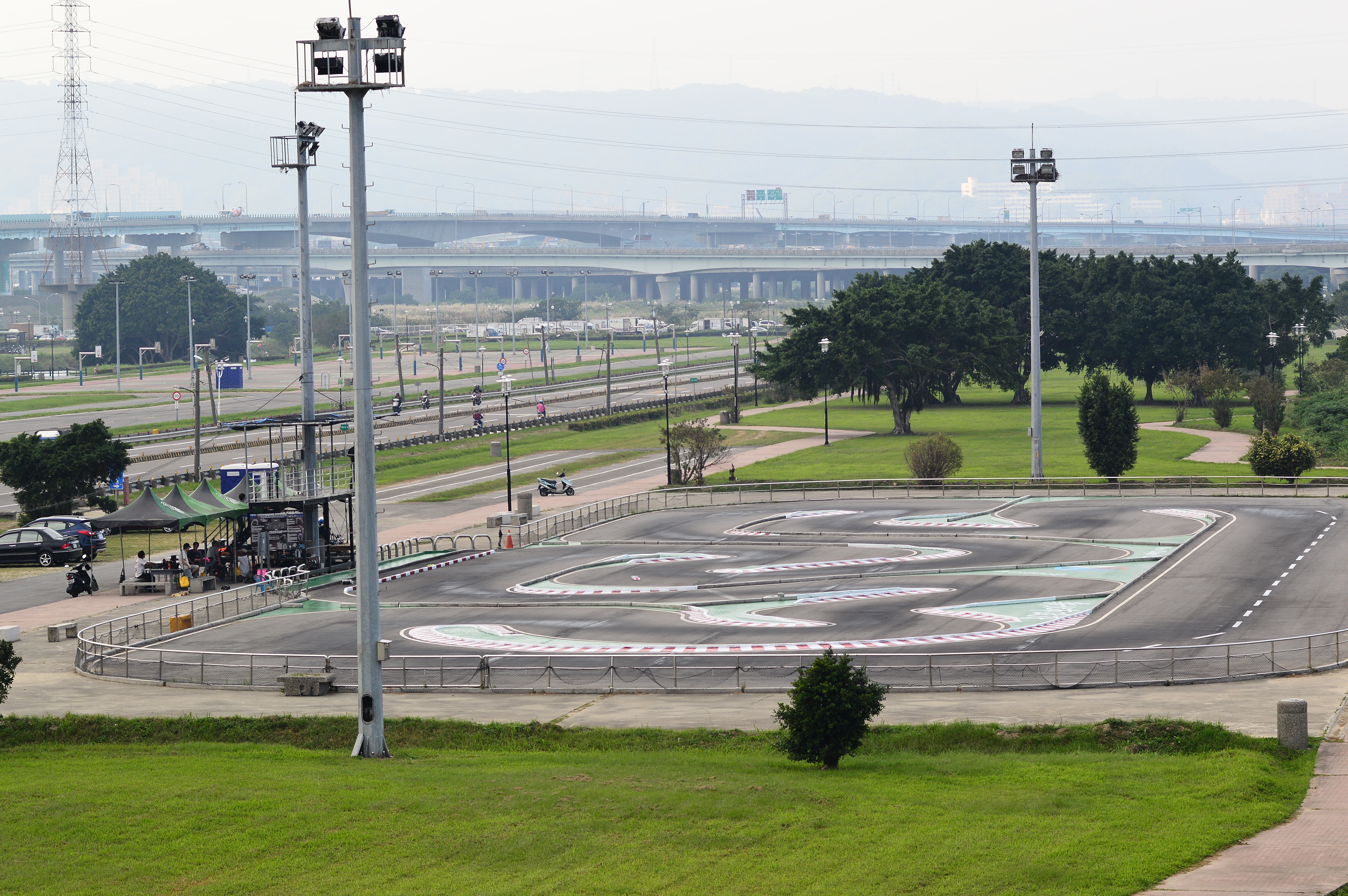 Taipei Metropolitan Park